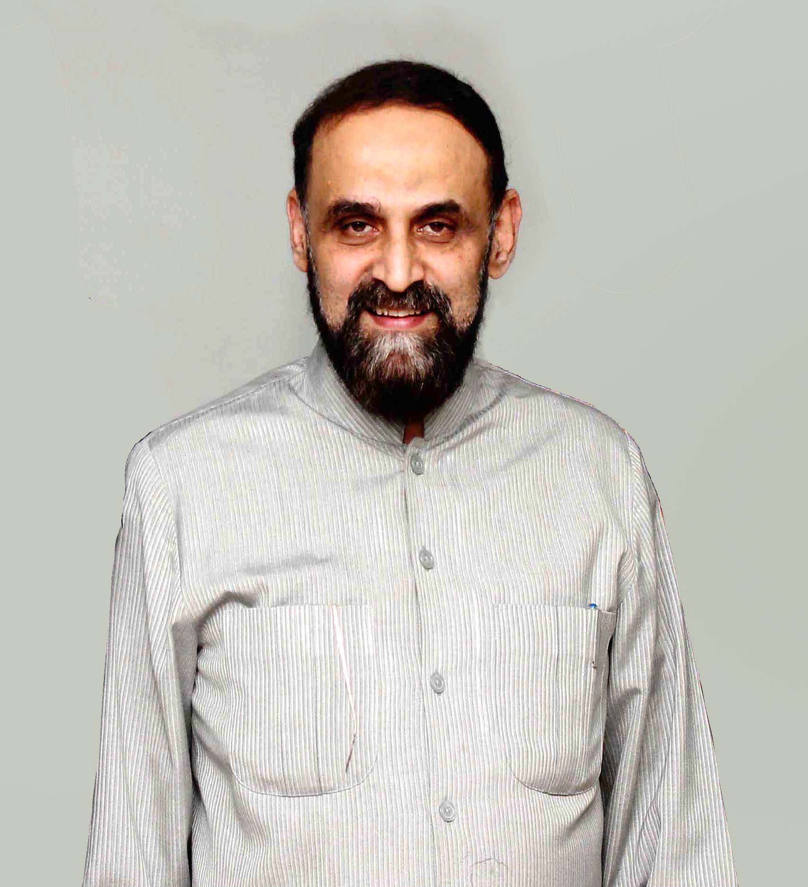 Dr.Mahdi Khaje Piri